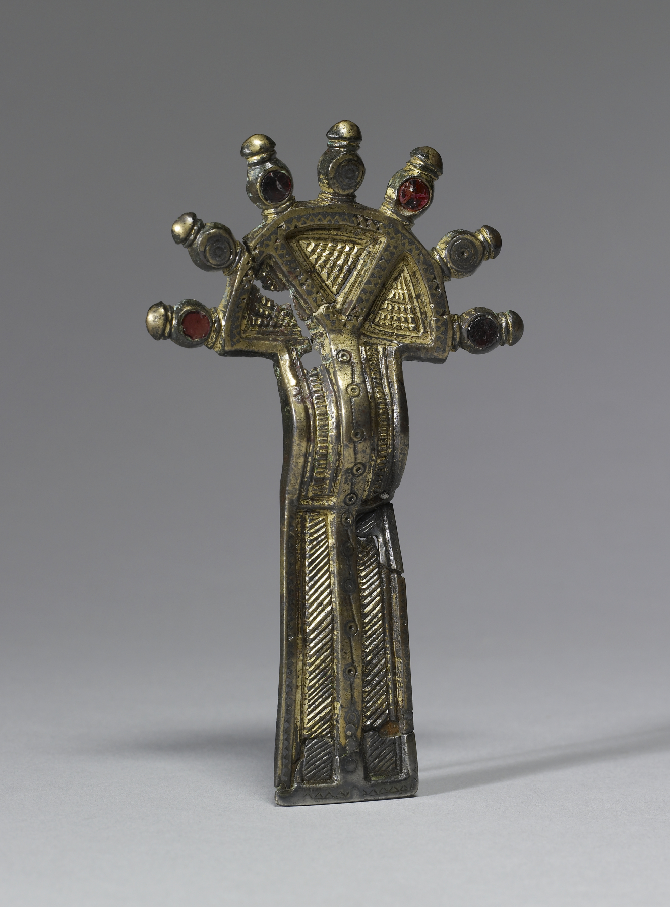 Bow fibulas are also called "digitated" fibulae due to the radiating knobs that resemble fingers or digits emerging from the headplate. The knobs of early (4th-century) fibulae were functional and held the springs of the pin. At a later date, as on this 6th-century example, the knobs became purely decorative. This fibula has seven knobs alternately inlaid with garnets or glass paste and concentric circles filled with niello (a mixture of copper, sulphur, silver and lead). While seven-knobbed fibulae are much less common than the five-knobbed types, they are likewise found in northeastern France and the Rhineland. They were worn in pairs at the shoulder or as belt ornaments by women with noble status in Frankish society.